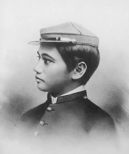 Edward Abnel Keliʻiahonui (1869–1887) was a prince of the Kingdom of Hawaii. Charcoal artwork by J. Ewing, on a photograph reproduced by J. J. Williams.